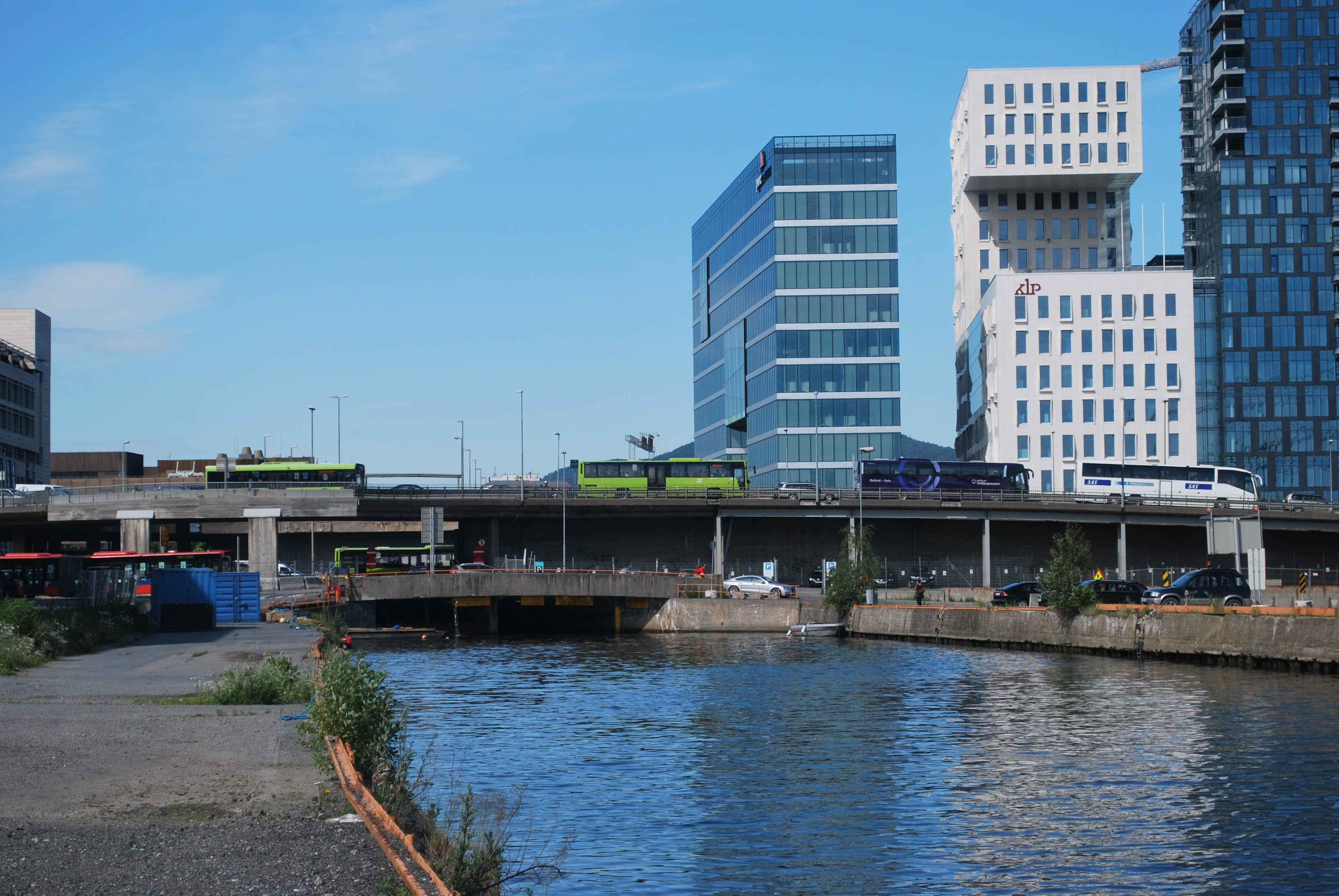 Akerselva ends in the Oslo Fjord in BjørvikaNorsk bokmål: Akerselva ender i Bjørvika etter å ha passert Grønlandskulverten. PWC- og KLP- byggene av Barcode til høyre, motorveibruene Bispelokket over utløpet